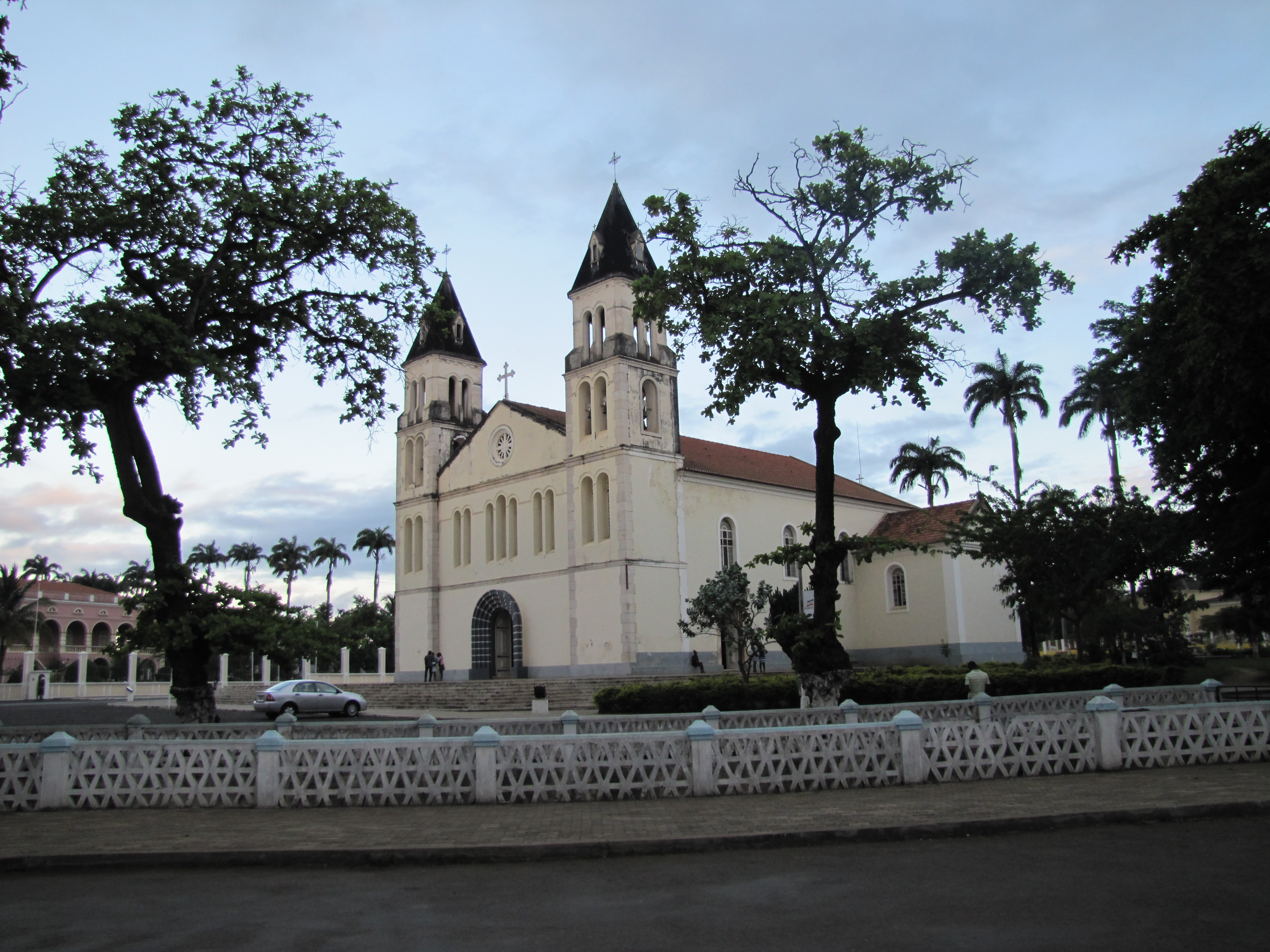 Sao Tome Cathedral 7